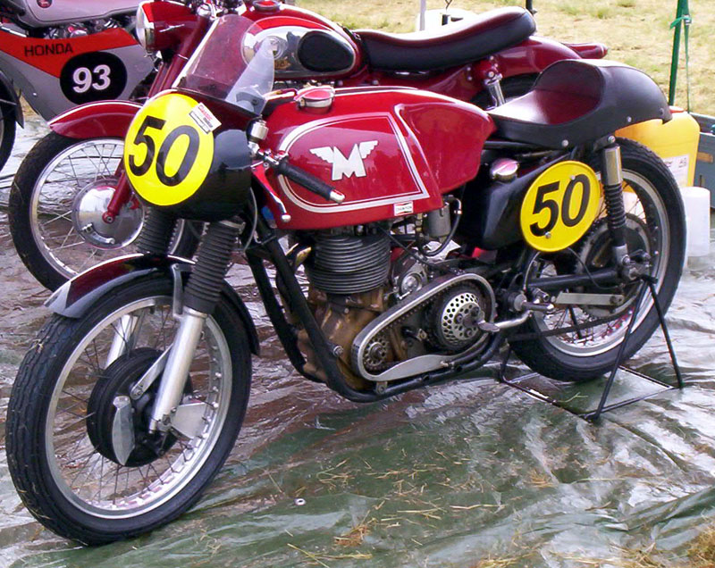 Matchless G50 500 cc Racer 1958